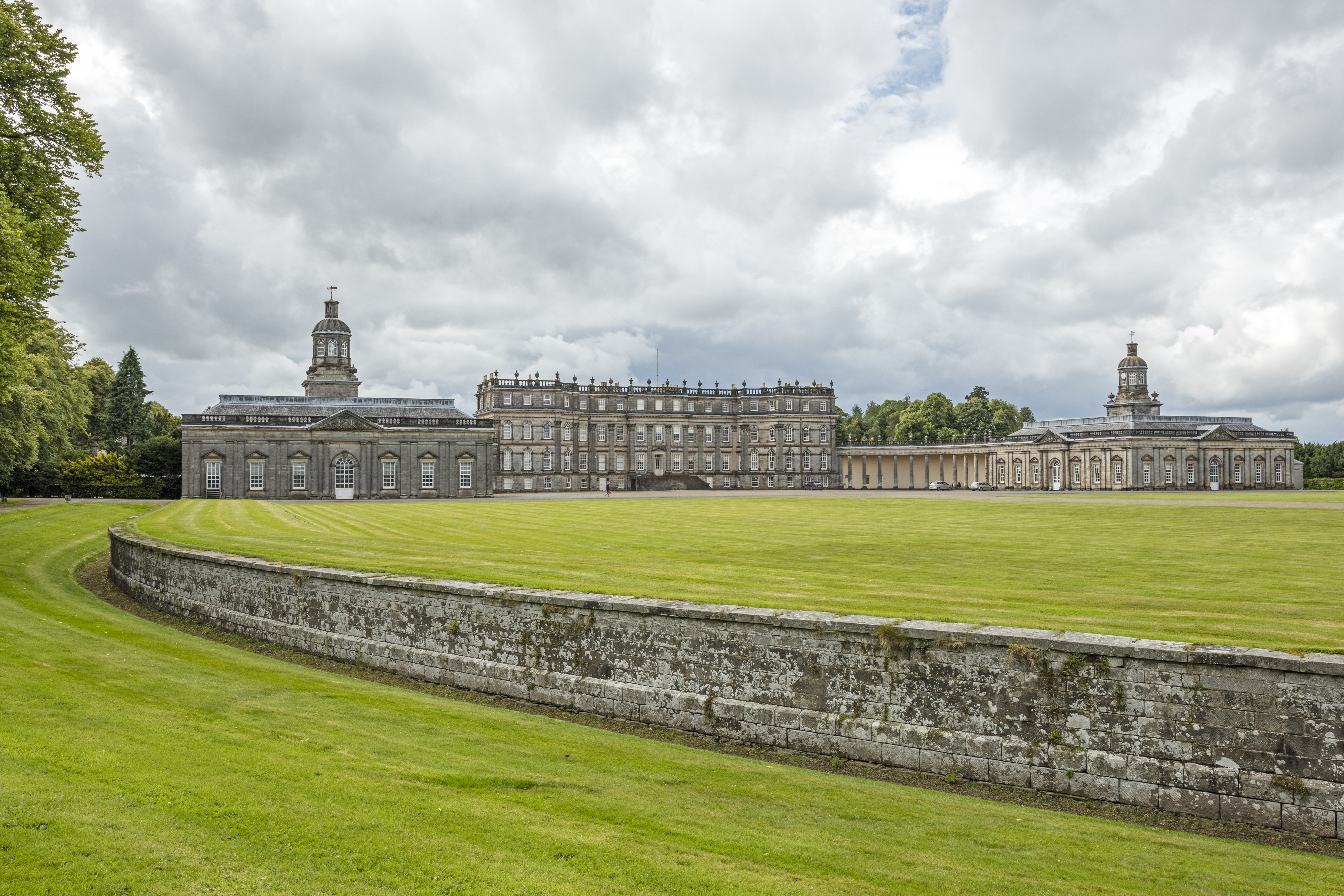 Hopetoun House Wikidata has entry Q1627581 with data related to this item.